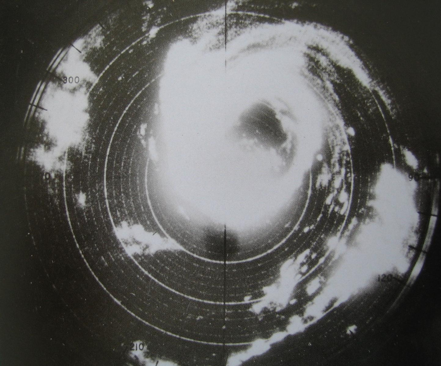 This is a radar image of a hurricane on September 21, 1948